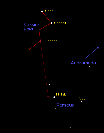 Finding Mirfak. Orientation of the constellations like in mid october, about 21:00 true local time.